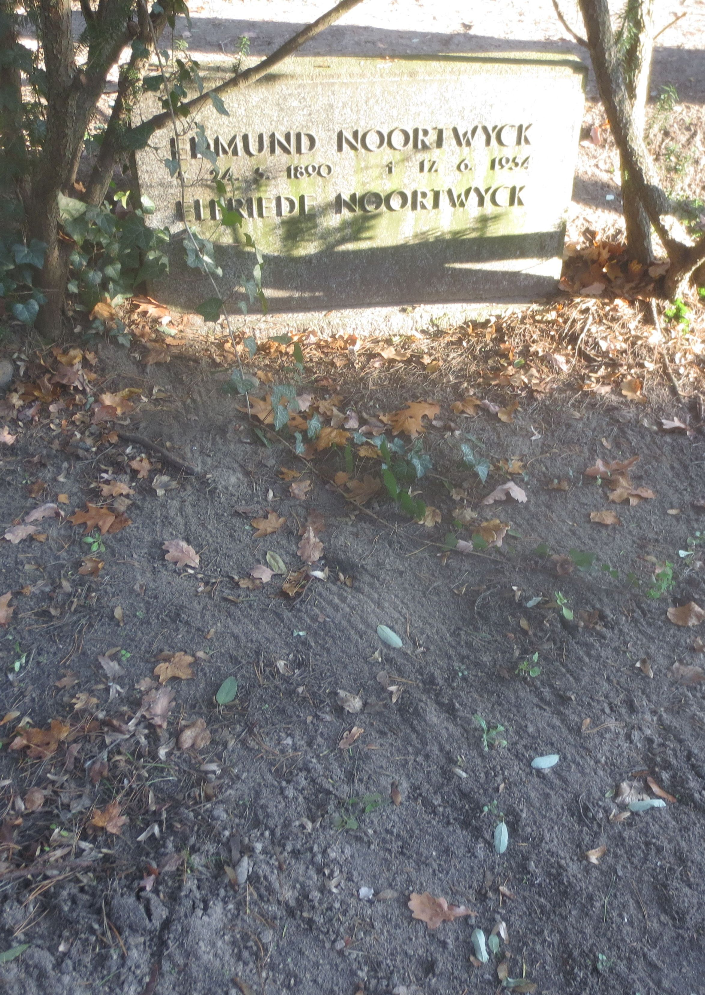 Grave of the jurist, civil servant and politician Edmund Noortwyck (1890-1954) on the Friedhof Heerstraße cemetery in Berlin-Westend.